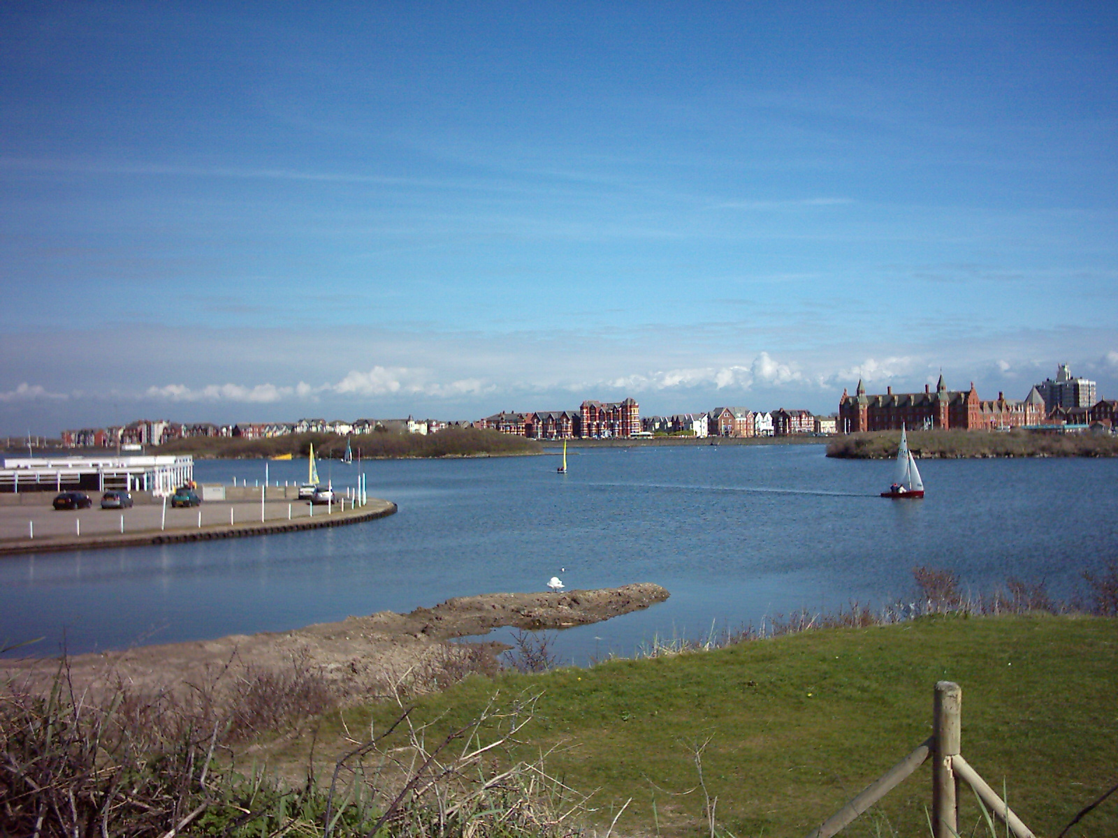 View across Marine Lake, Southport, UK (View looking approximately east, with photographer's back to the sea. The Victorian-era red brick building above the sailing boat was originally the Promenade Hospital, but has been converted into flats since 2000. Additional info from local knowledge, JackyR 22:15, 1 September 2006 (UTC))